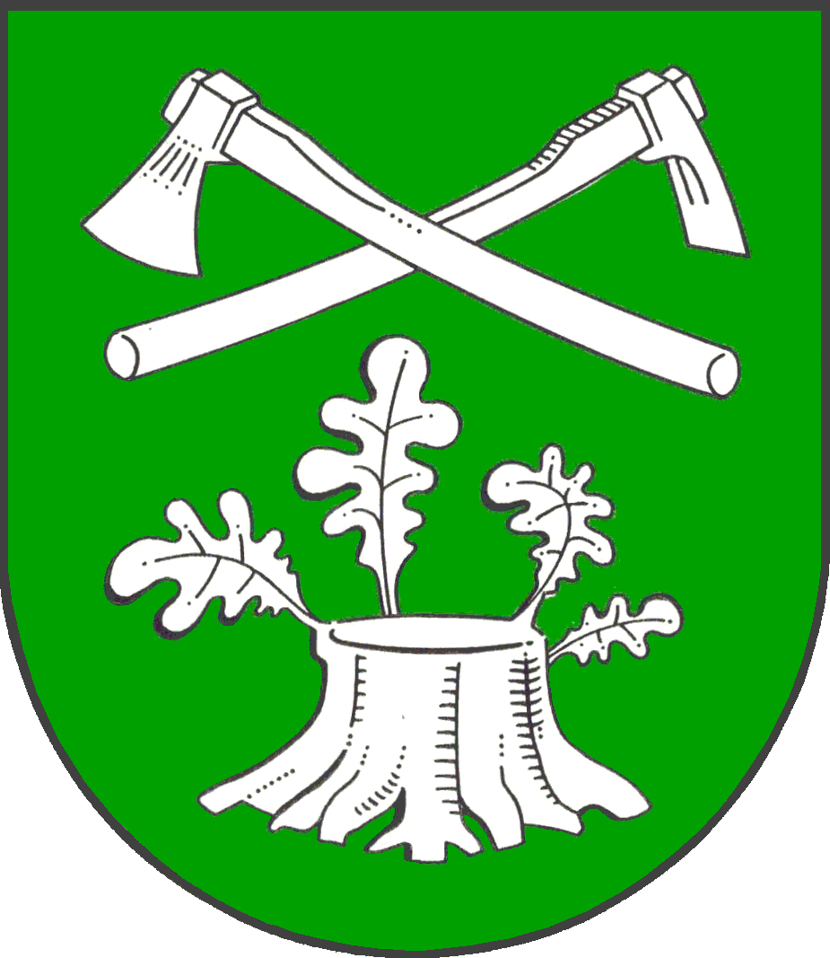 Coat of arms of the municipality Großenrade in Schleswig-Holstein, Germany.